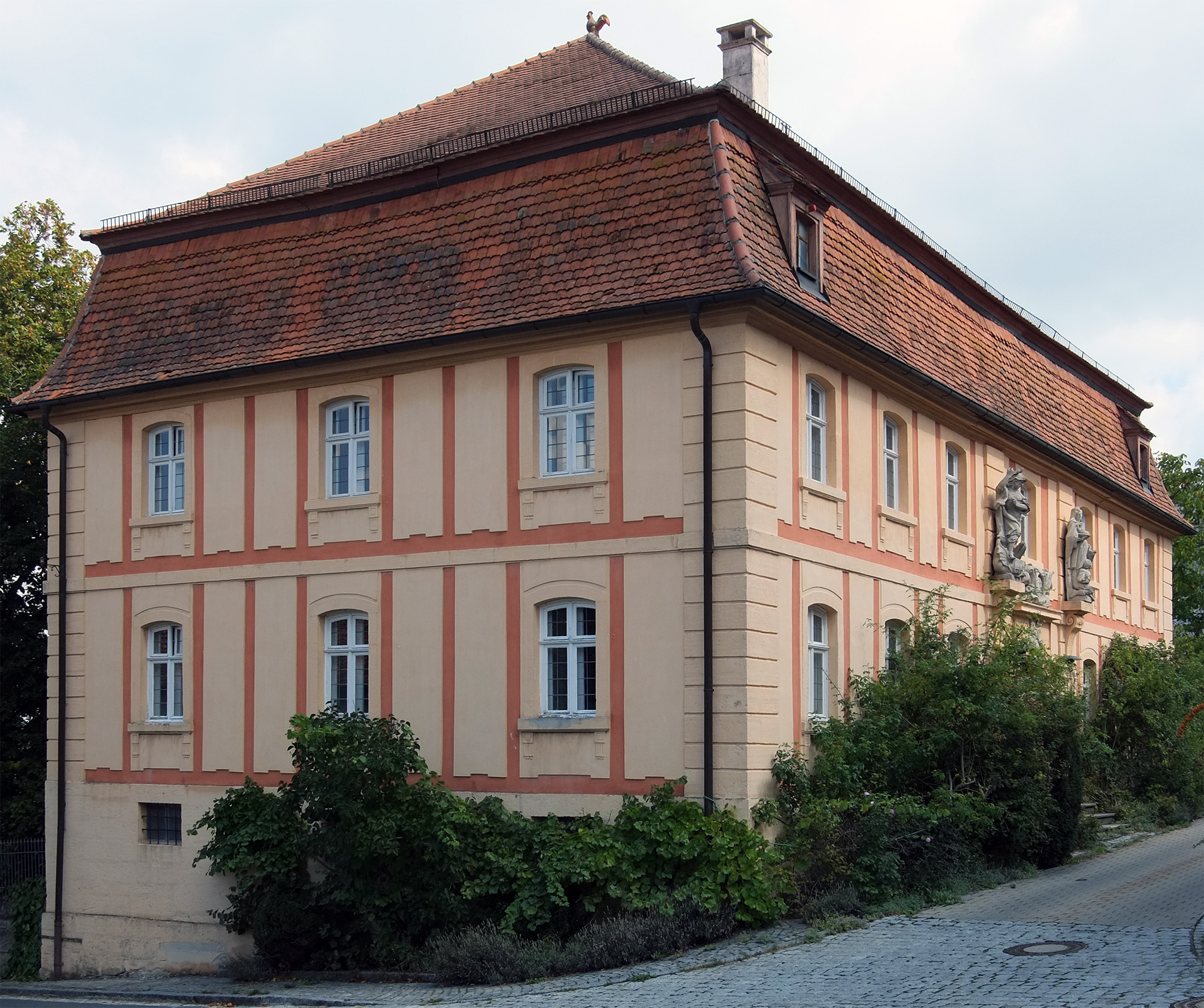 This is a photograph of an architectural monument.